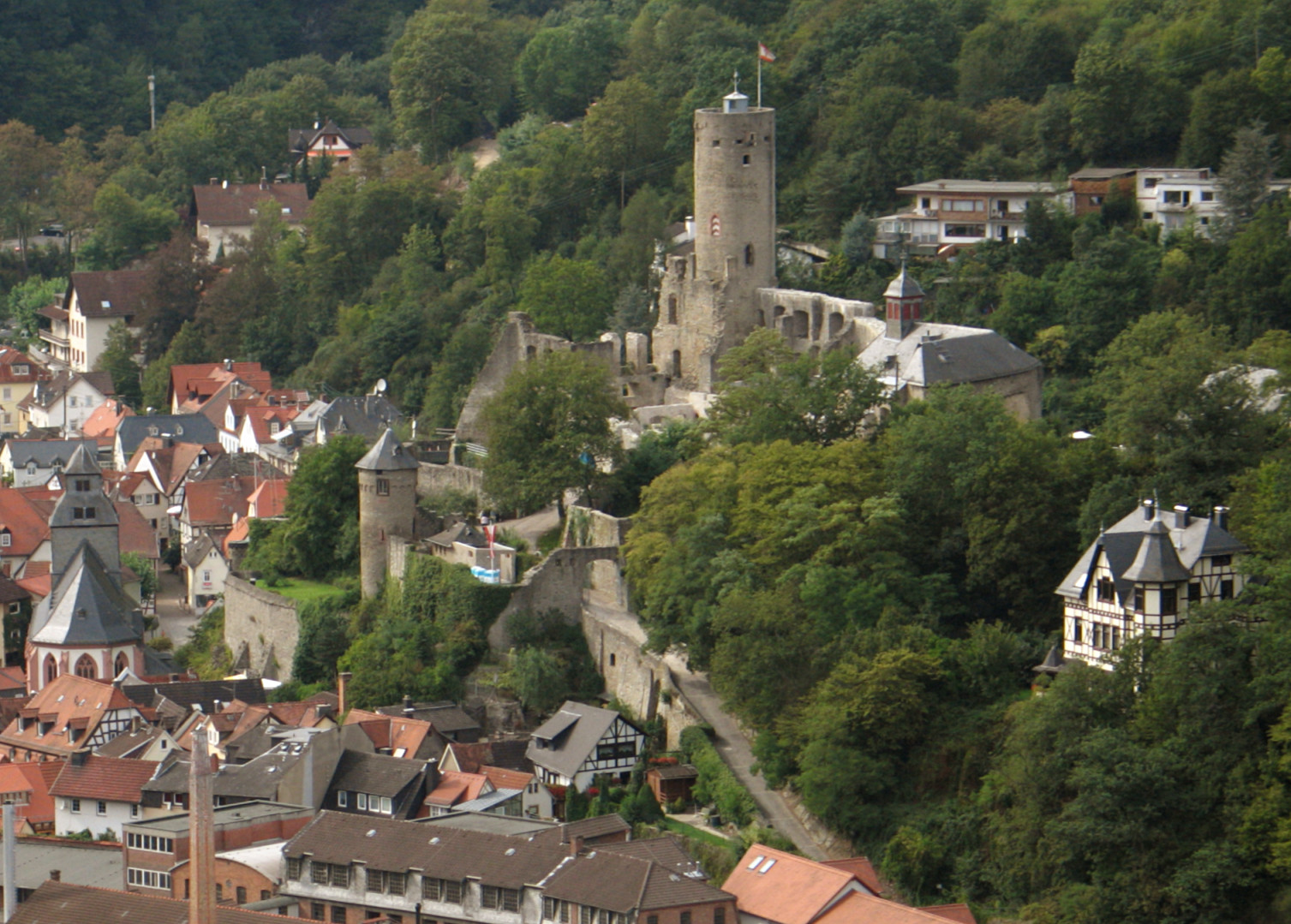 The Eppstein castle at Eppstein, Taunus, Germany. View from eastern direction.